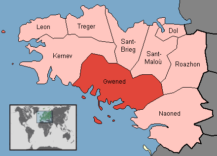 localisation Bro Waroch